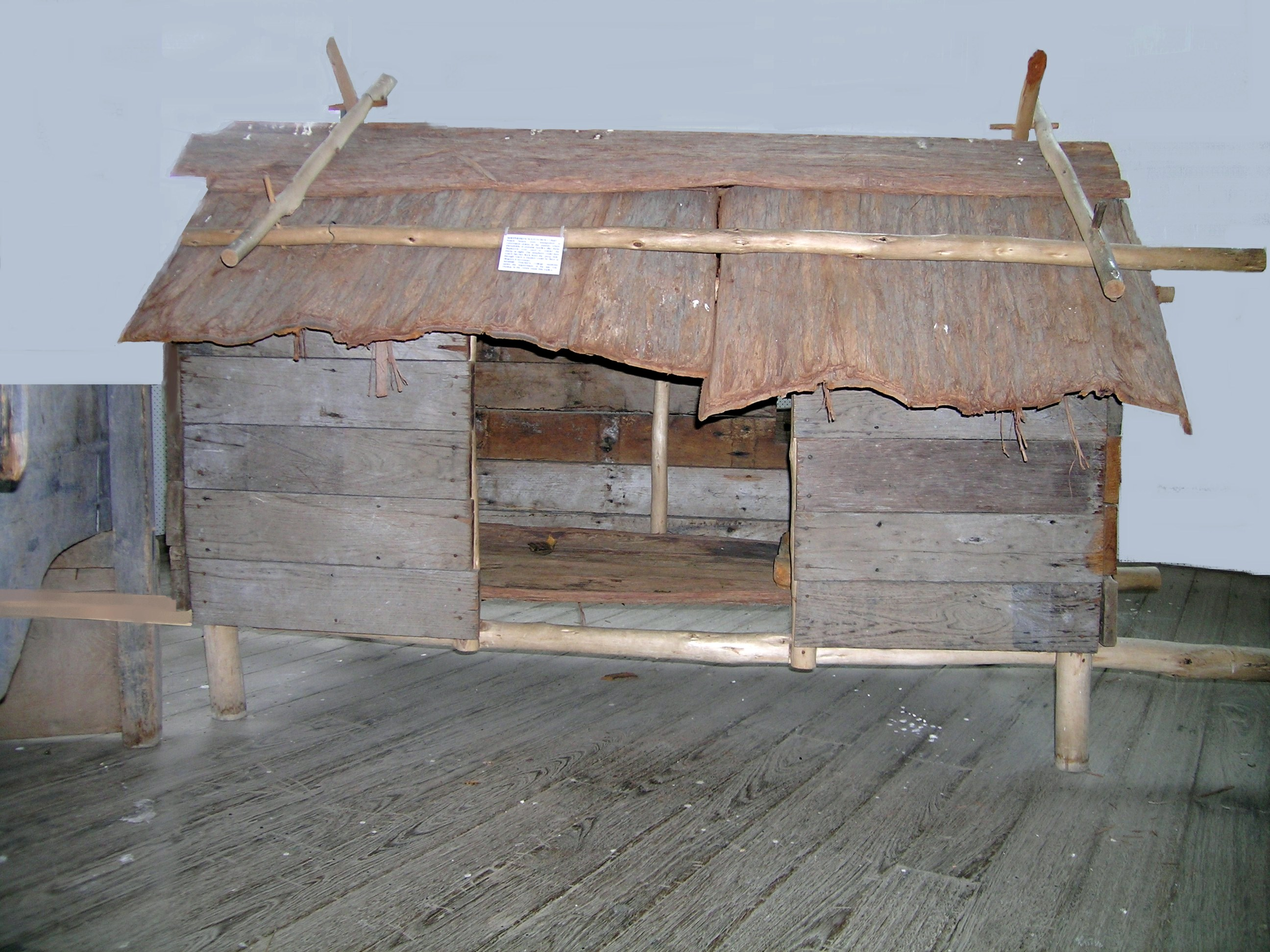 Shepherd's (night) watch box, NSW